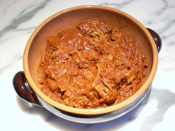 Picture of the Yucatecan speciality cochinita pibil